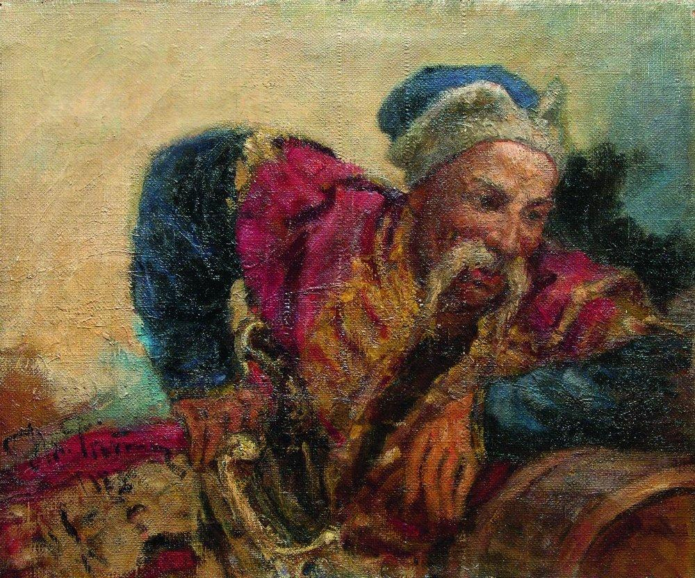 Study for the picture The Reply of the Zaporozhian Cossacks to Sultan of Turkey.